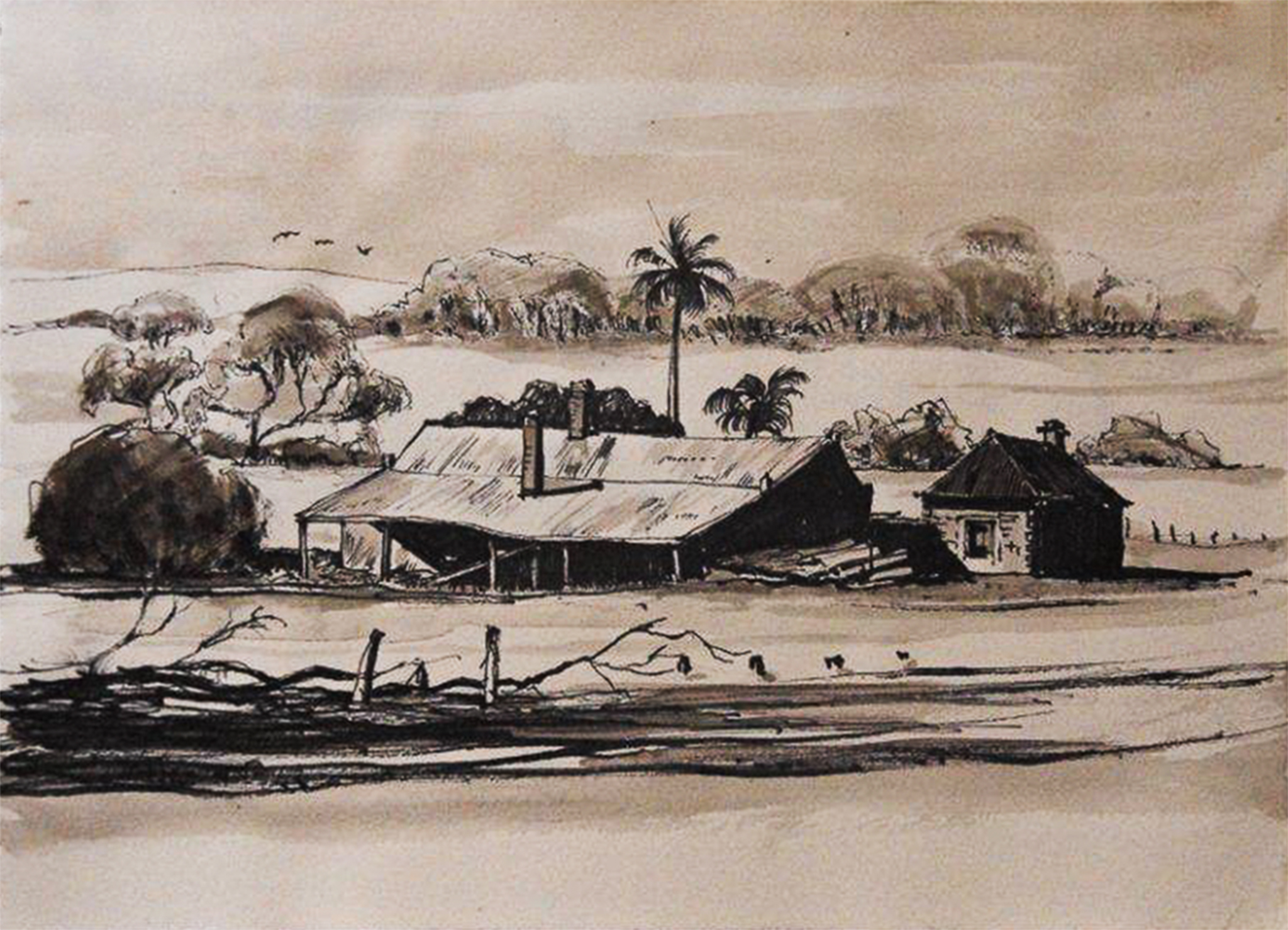 Landscape of old house and kitchen in pen, ink and wash by Ian Sprague; photographed in a private collection at Enfield Victoria.